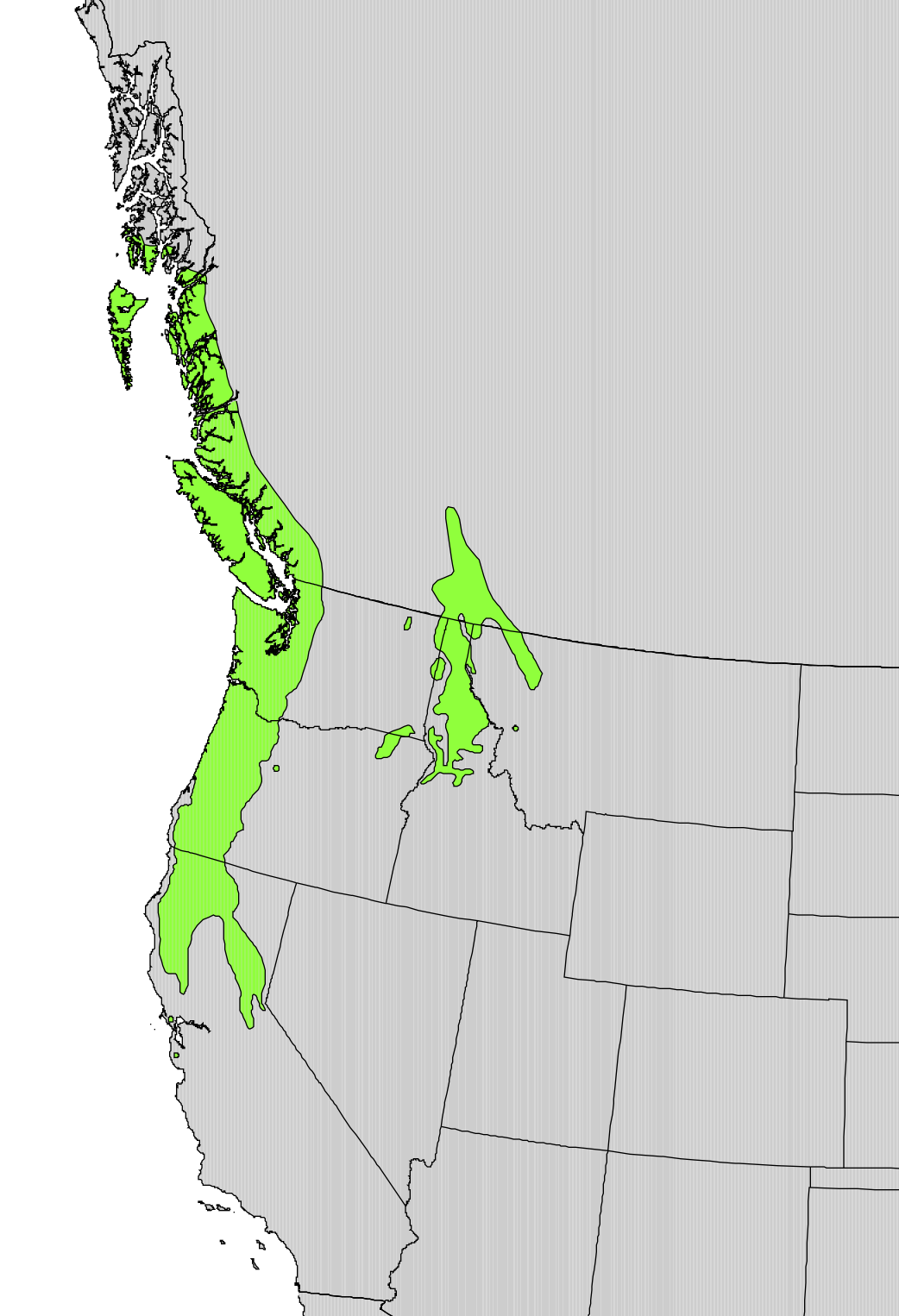 Range map of Taxus brevifolia